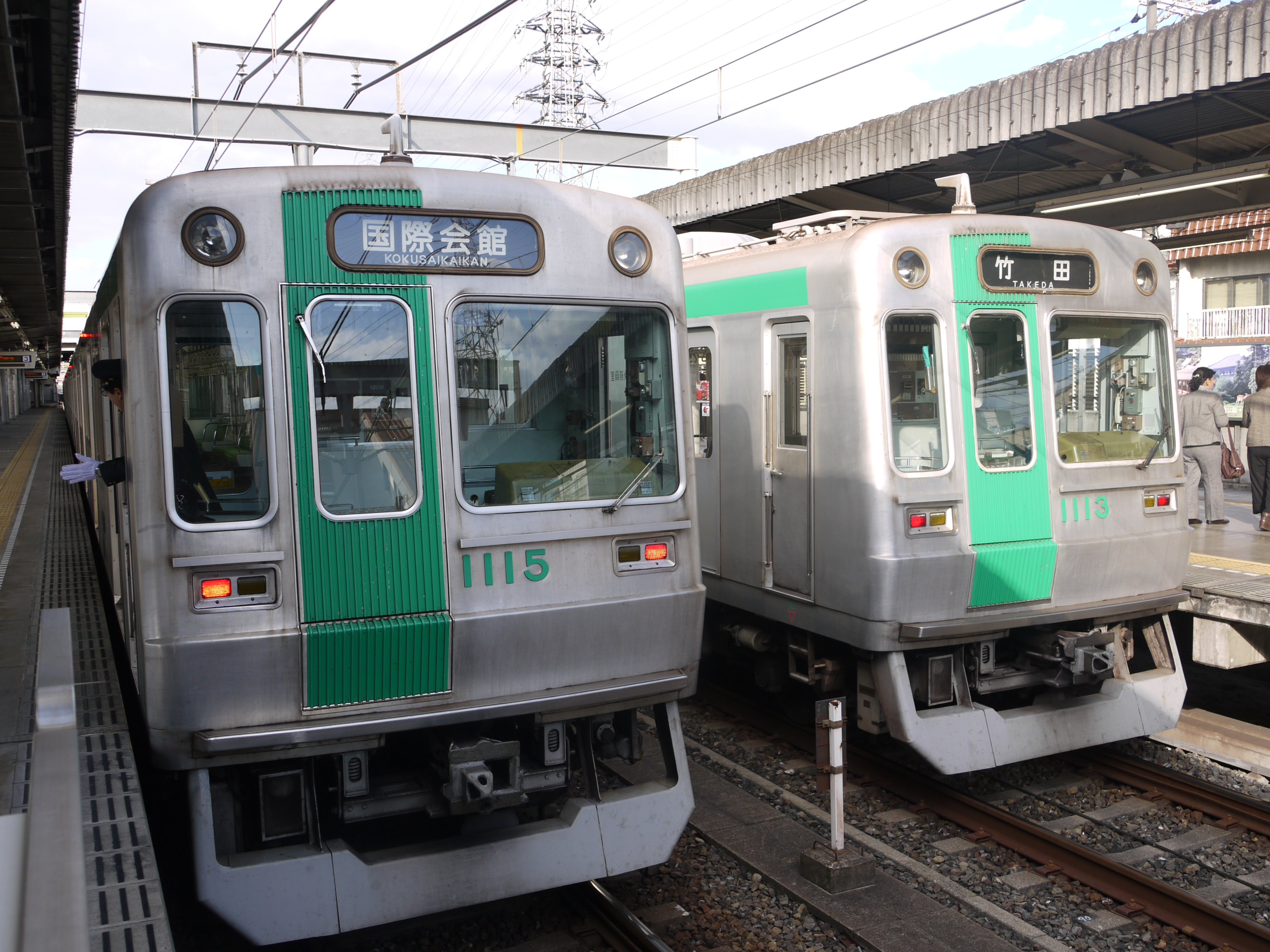 Kyoto subway 113 and 1115